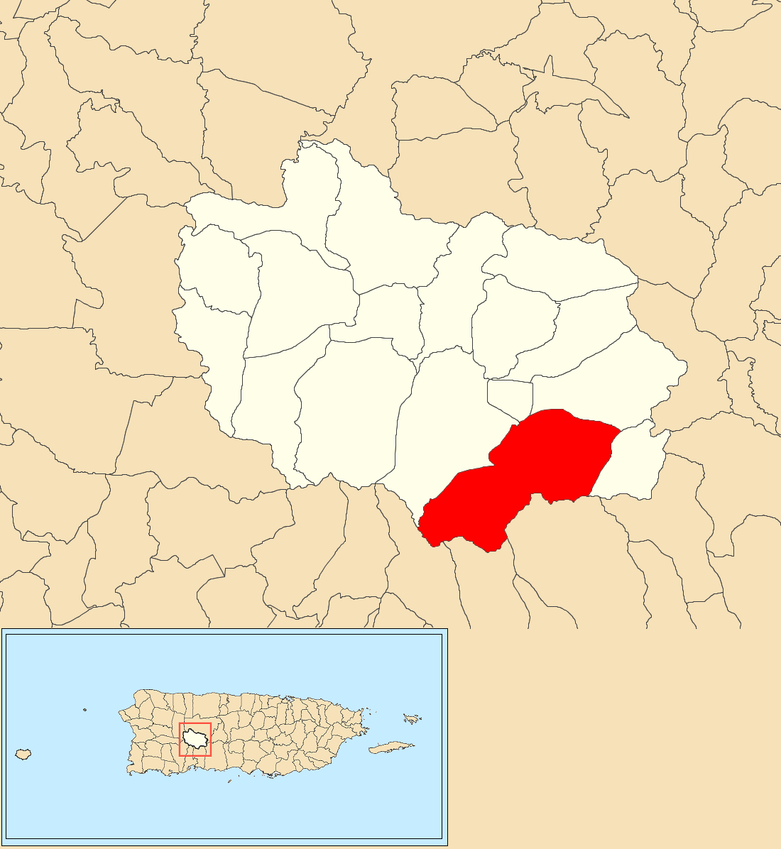 Saltillo, Adjuntas, Puerto Rico locator map